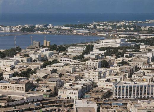 Aerial view of Djibouti Ville.